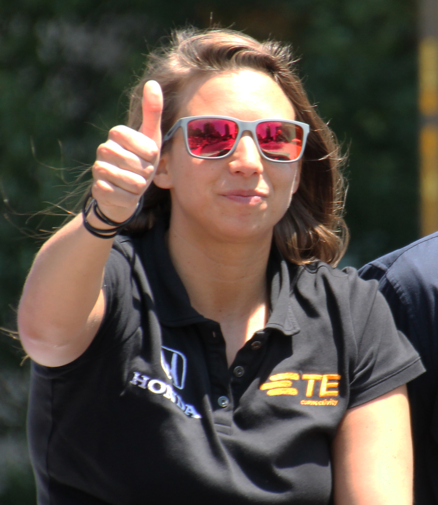 Simona de Silvestro at the 2015 500 Festival in Indianapolis, Indiana